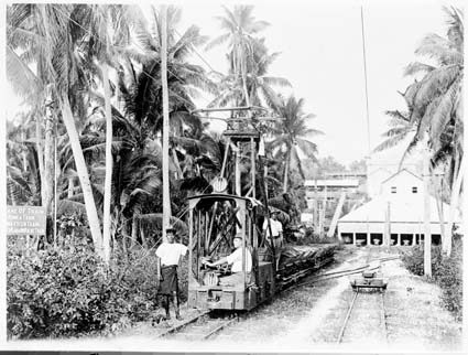 The Electric Railway of Nauru and Great Crushing and Drying Shed